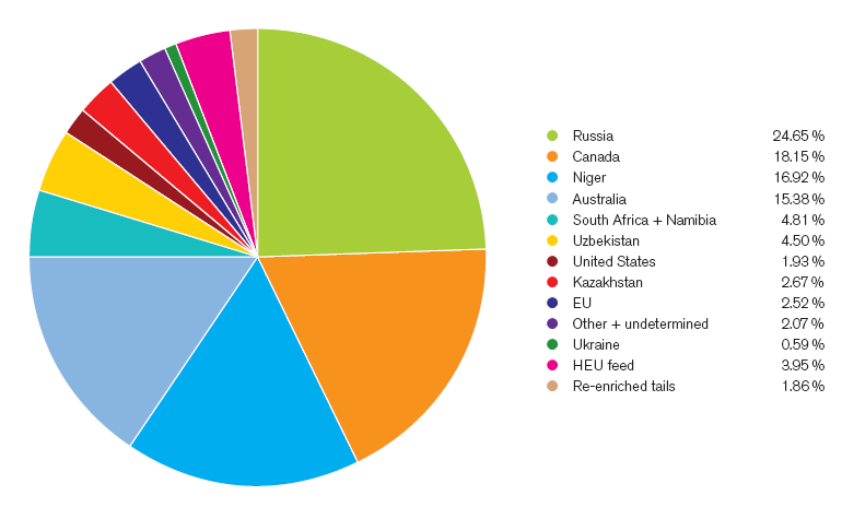 Euratom Supply Agency Annual Report 2007: Sources of uranium delivered to EU utilities in 2007